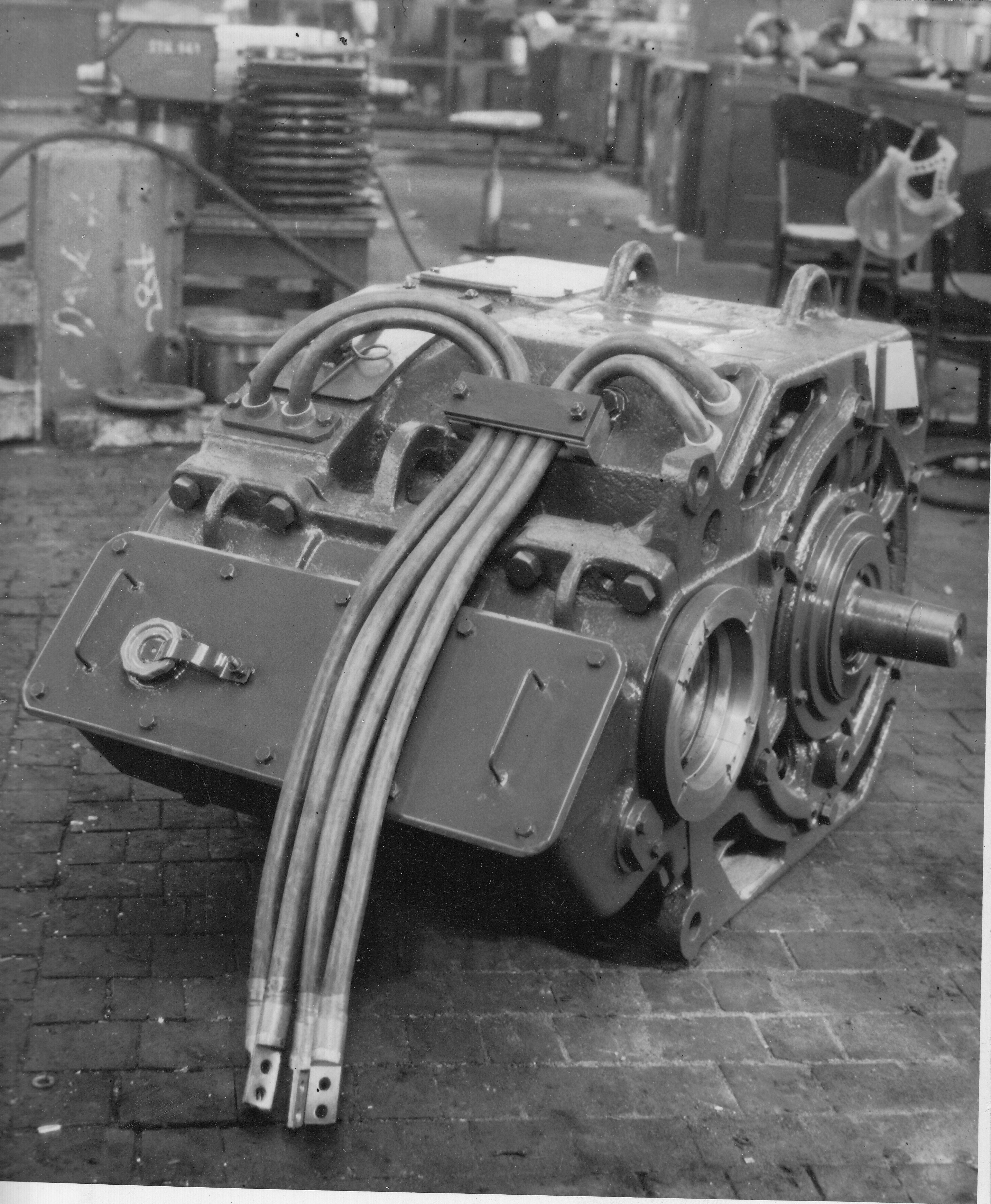 Traction motor